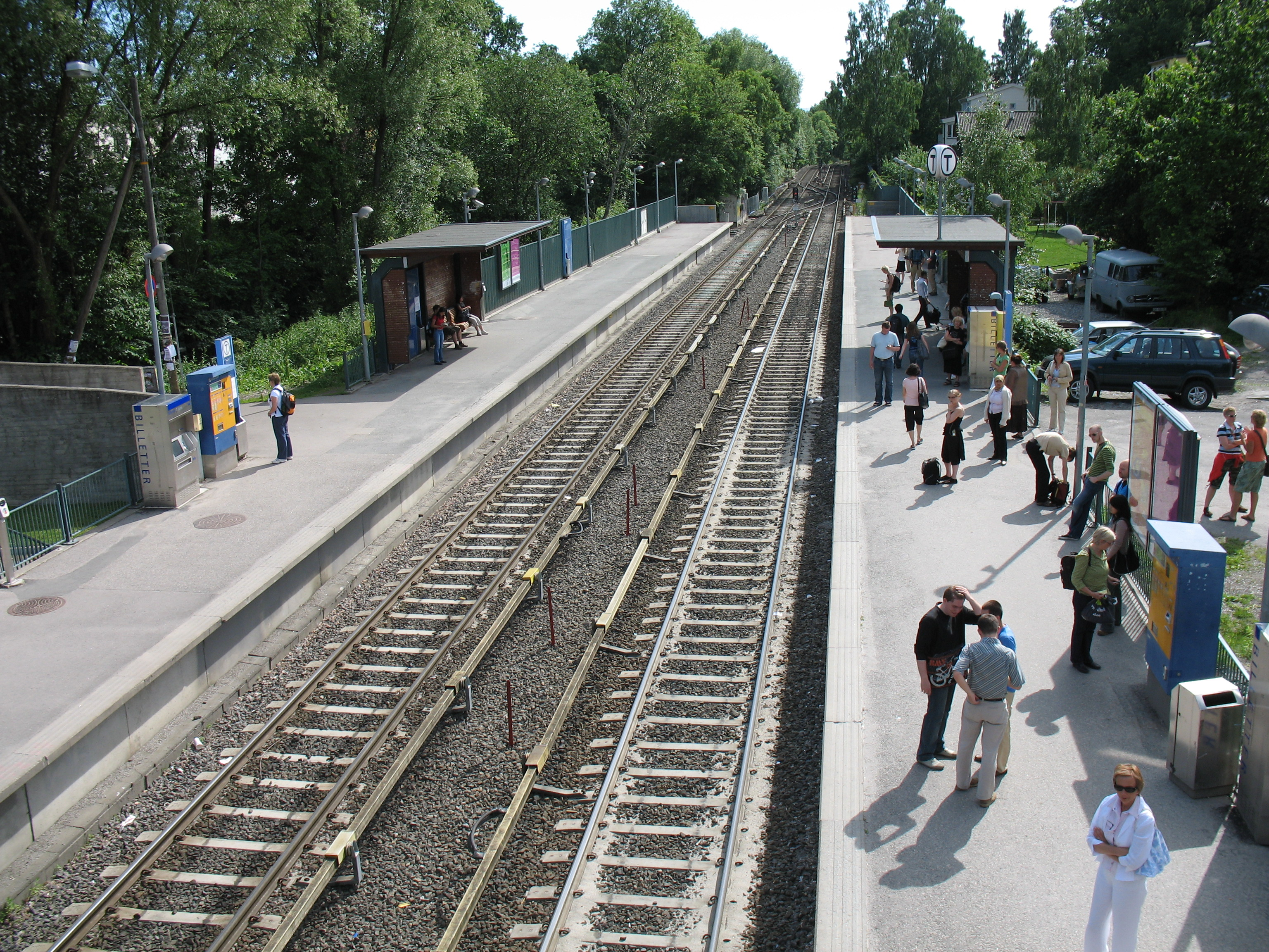 Oslo subway station Blindern.